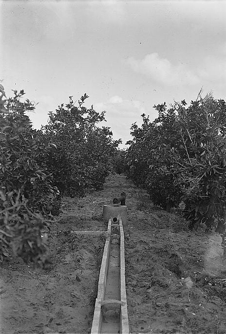 Orange fields, Bir Salim